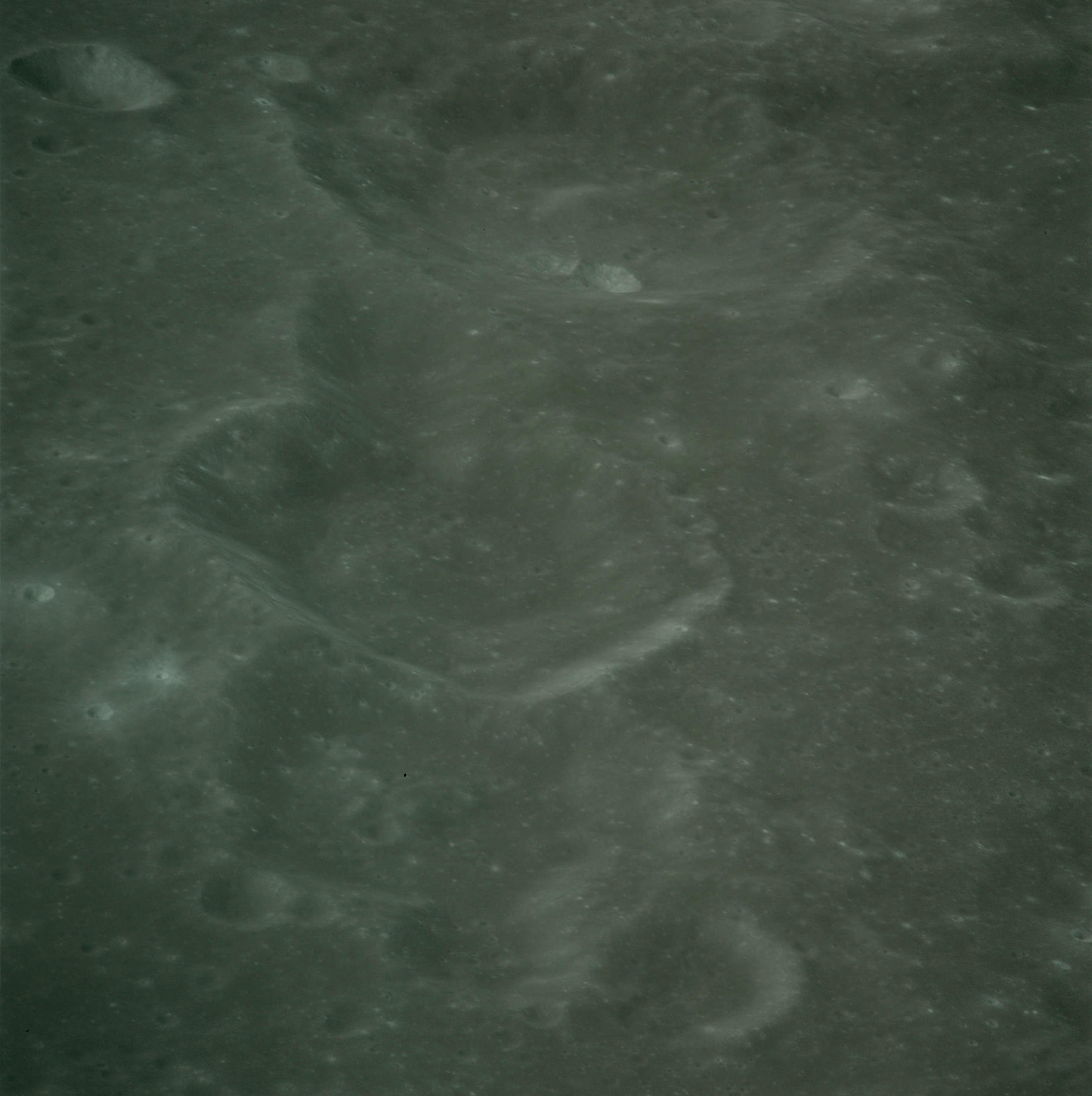 Oblique view of Vogel crater (bottom) and Argelander crater (top), facing south, on the moon. Cropped slightly and brightness and contrast adjusted.